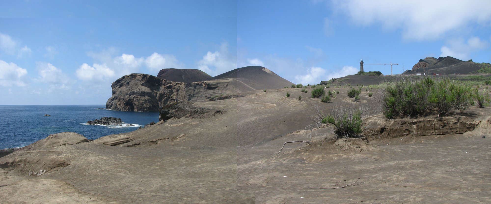 Capelinhos Vulcano in Faial Island, Azores